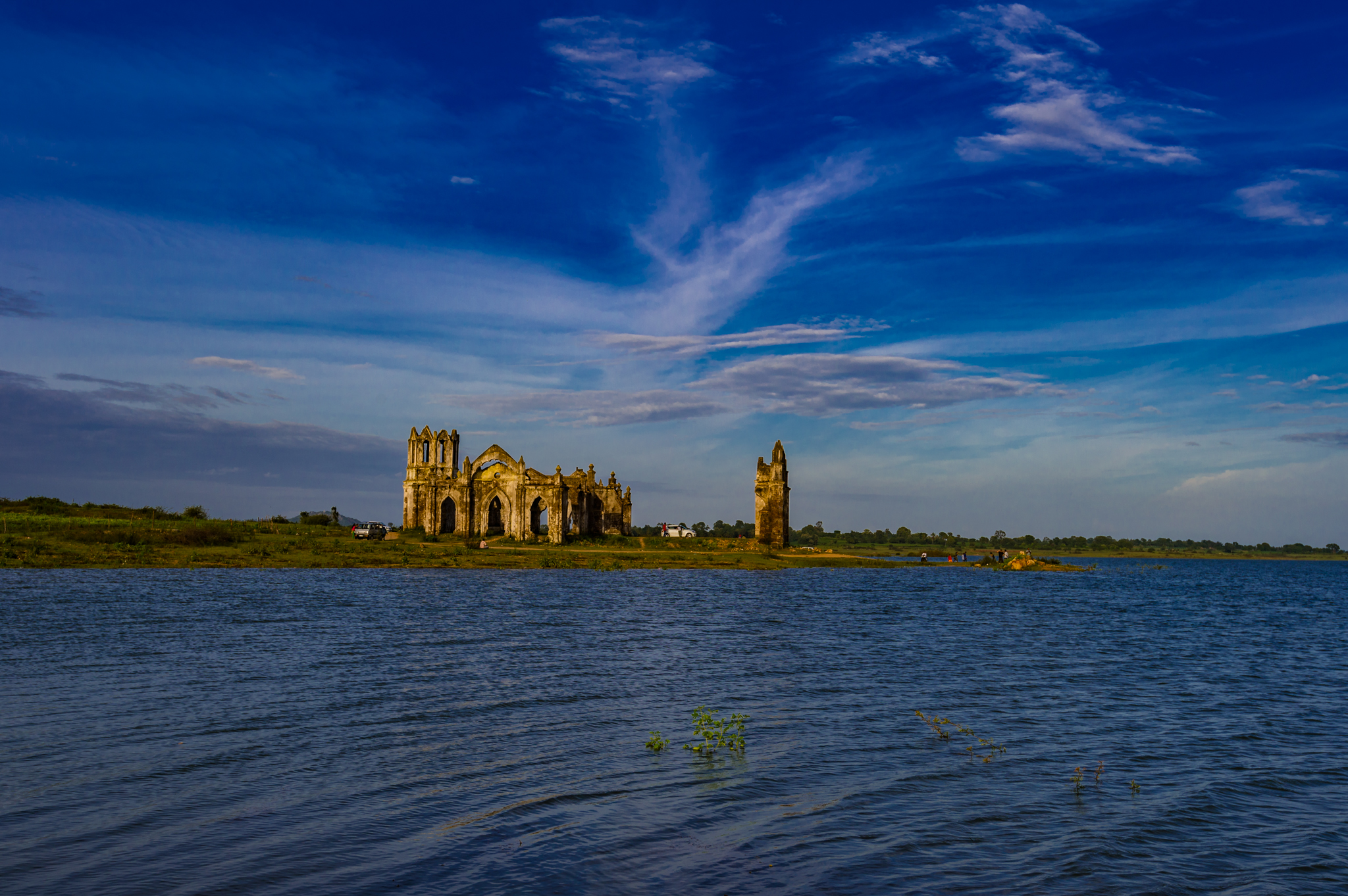 Shettihalli Church is located 22 km from Shettihalli, in Karnataka. Built in the 1860s by the French missionaries, the church is a magnificent structure of Gothic Architecture. After the construction of the Hemavati Dam and Reservoir in 1960 the church was abandoned.